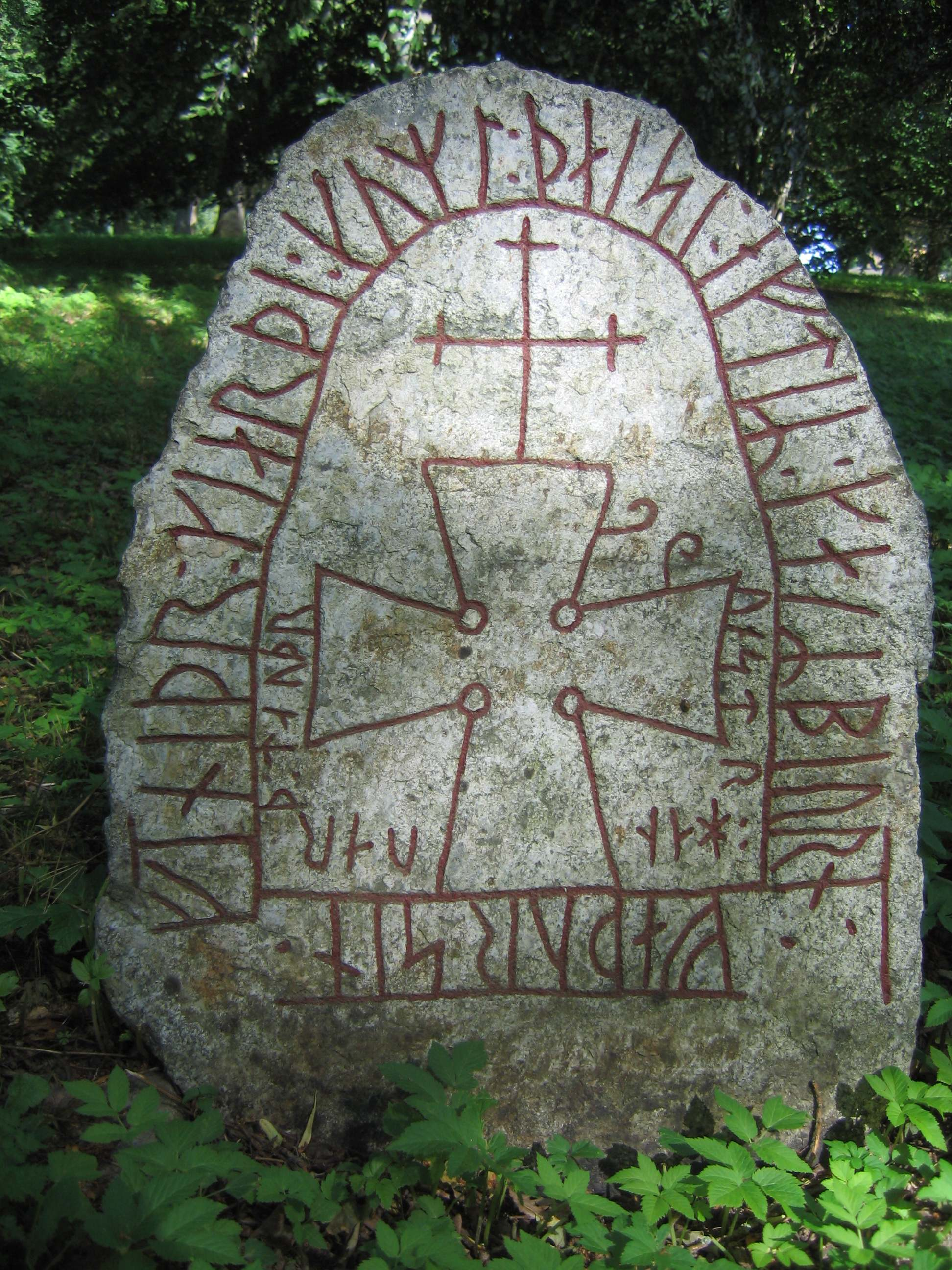 Runestone Sö 319 in Årdala parish, Flen, Södermanland, Sweden.